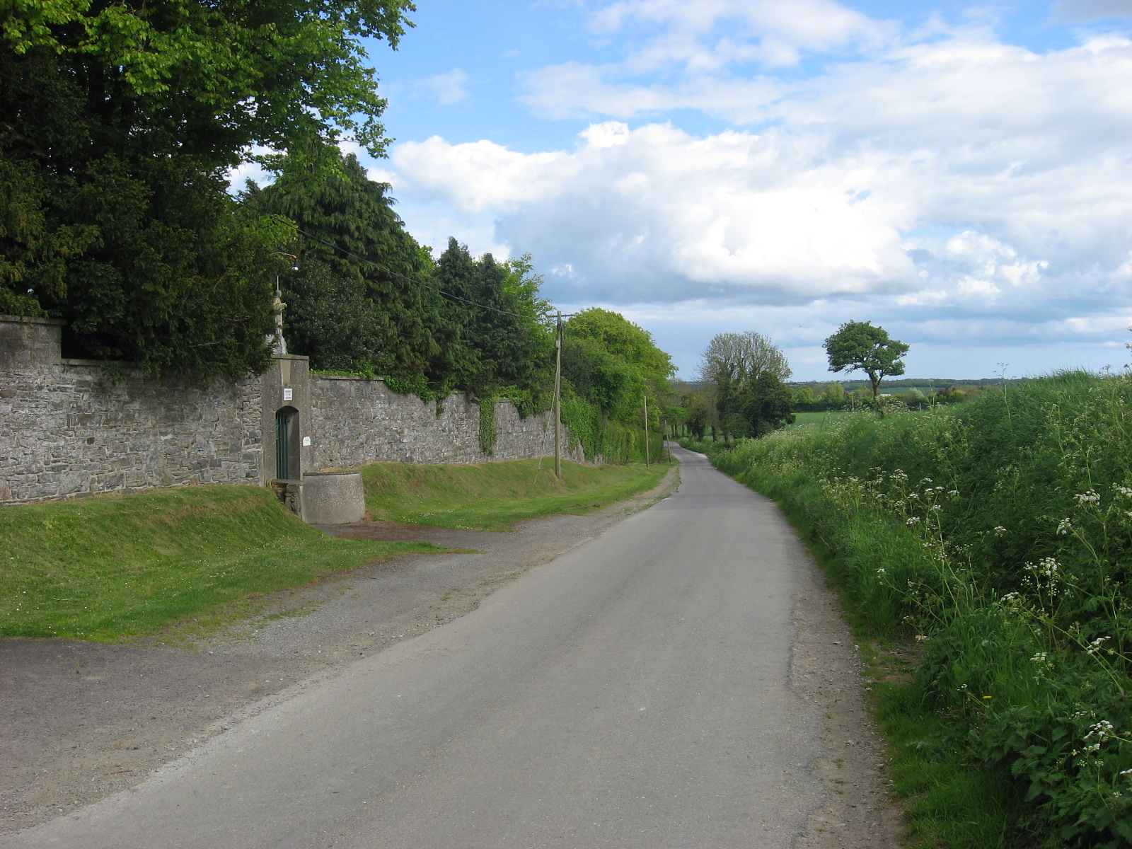 Kilbreckstown, Co. Meath